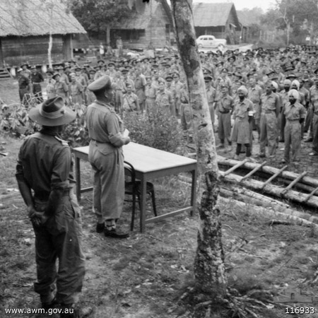 Australian War Memorial Caption: Kuching, Sarawak, 1945-09-11. After the surrender ceremony at Kuching, No 9 Australian Division, Kuching Force Commander, Brig T.C. Eastick, accompanied by Lt Col A.W. Walsh, CO 2/10th Field Regiment, No 8 Australian Division (a Prisoner of War) and Col T. Suga, Commandant of all Prisoner of War Camps in Borneo, visited the Prisoner of War and Internee Camp of Kuching. A parade was held at which the prisoners were informed of their liberation. Shown, the section of the parade in front of Brig Eastick listening to the address.""